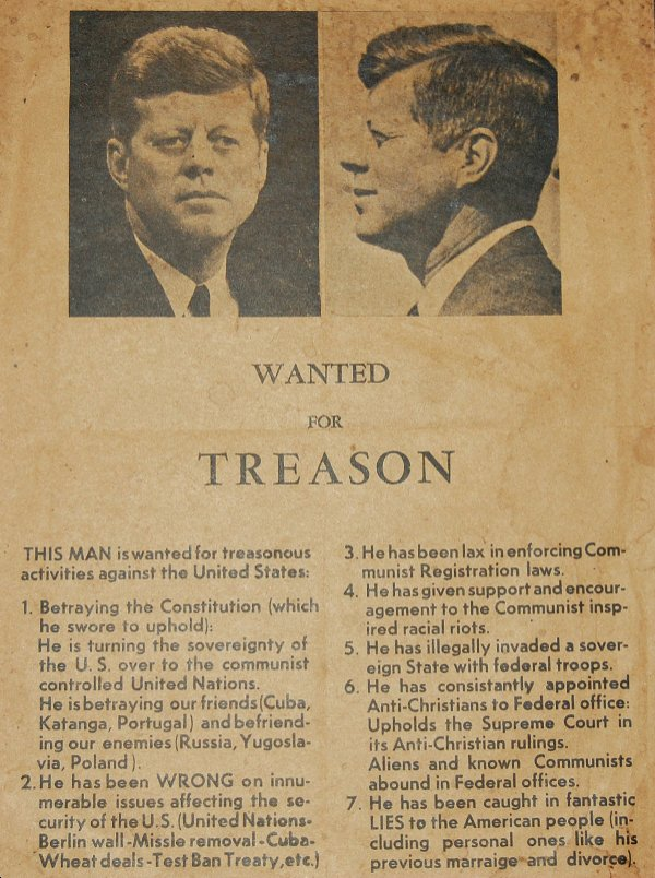 Wanted for Treason – infamous handbill circulated on November 21, 1963 In Dallas, Texas, one day before John F. Kennedy visited the city and was assassinated (for details see here[dead link])